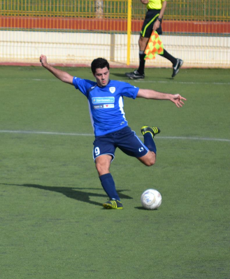 Swieqi united fc player during the league